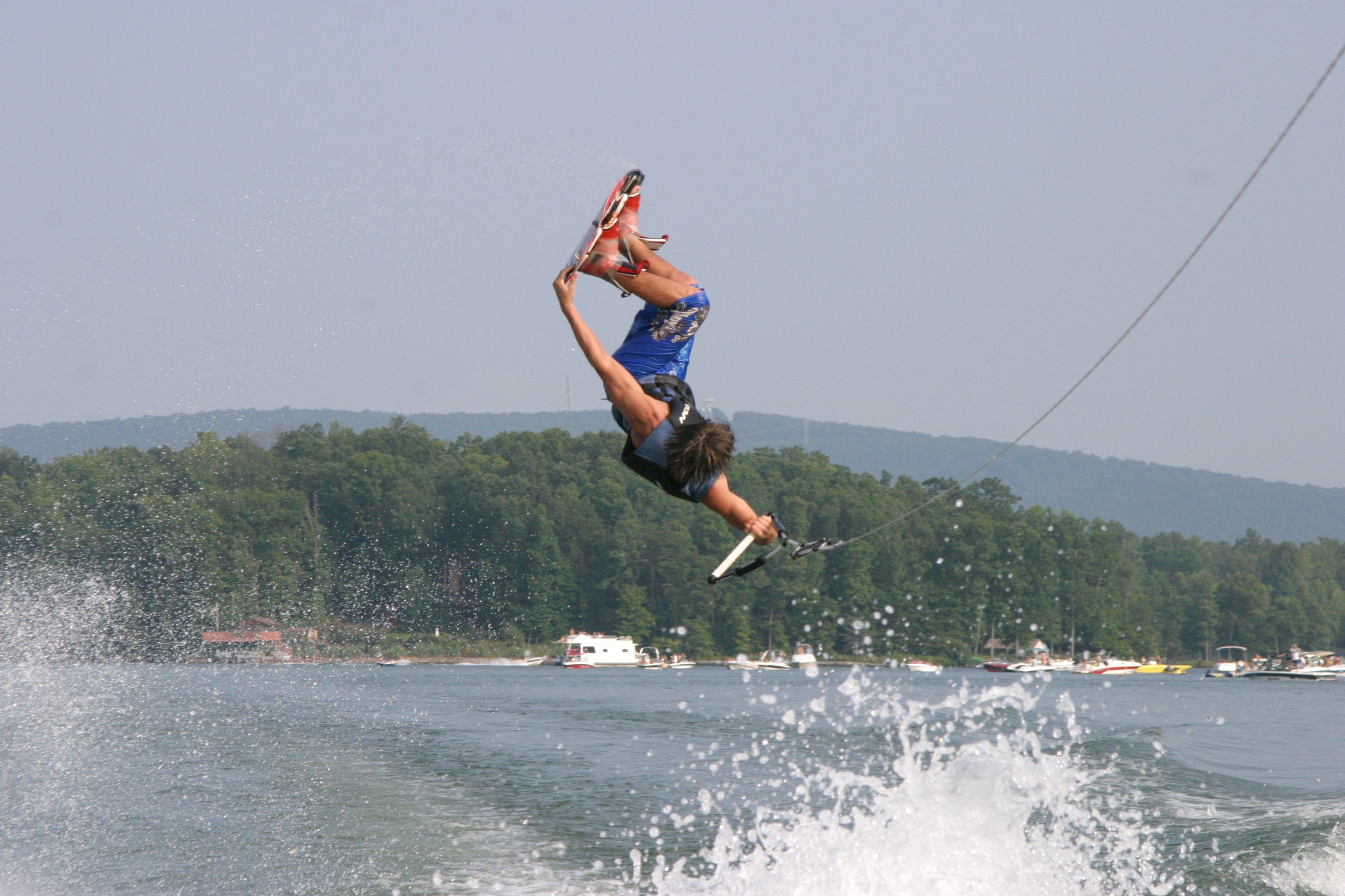 Wakeboarding on Smith Mountain Lake, Virginia, USA